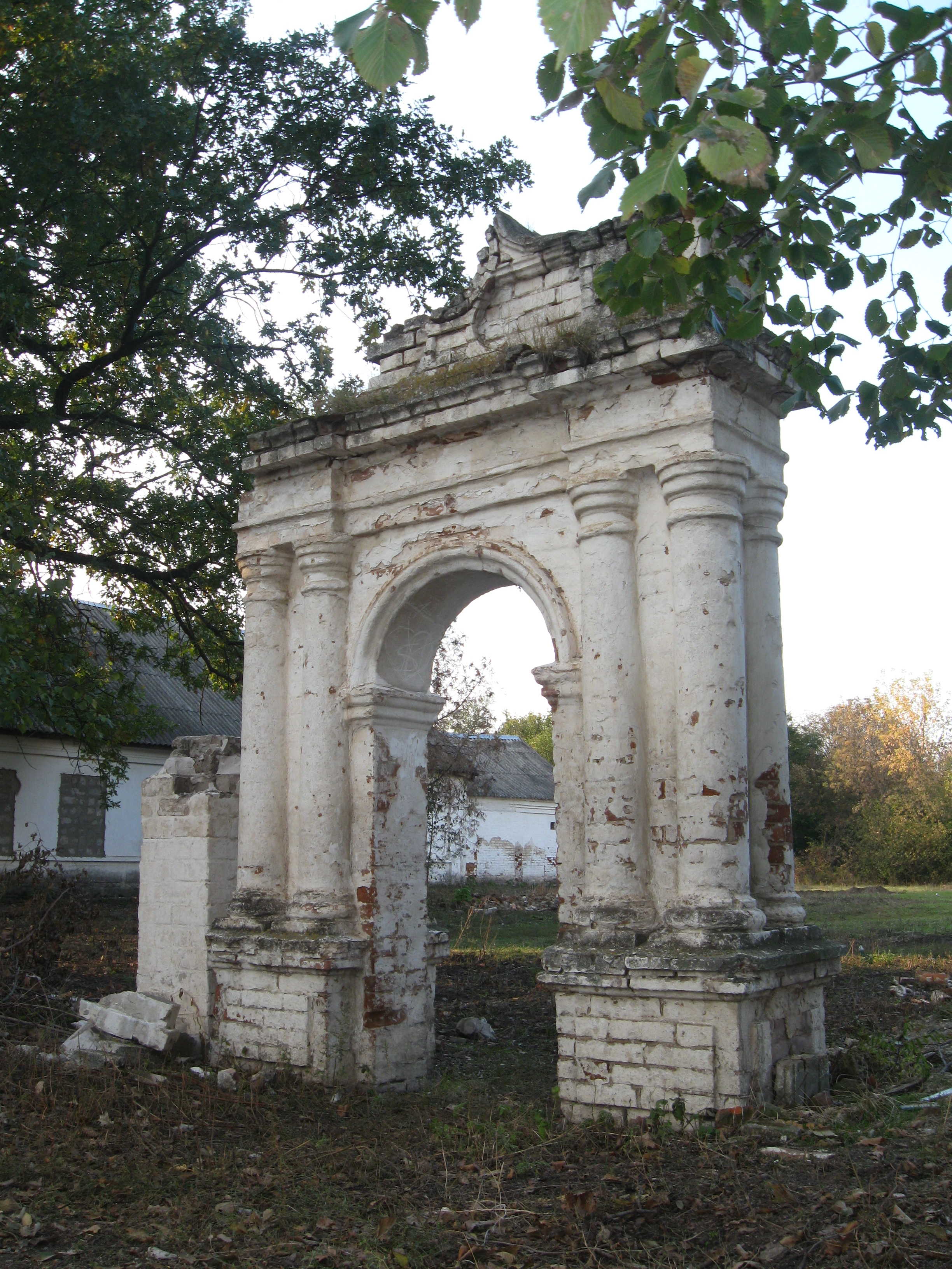 Park "Elita" and ruins baron von Klassen's estate, village Zarichne, Melitopol Raion, Ukraine